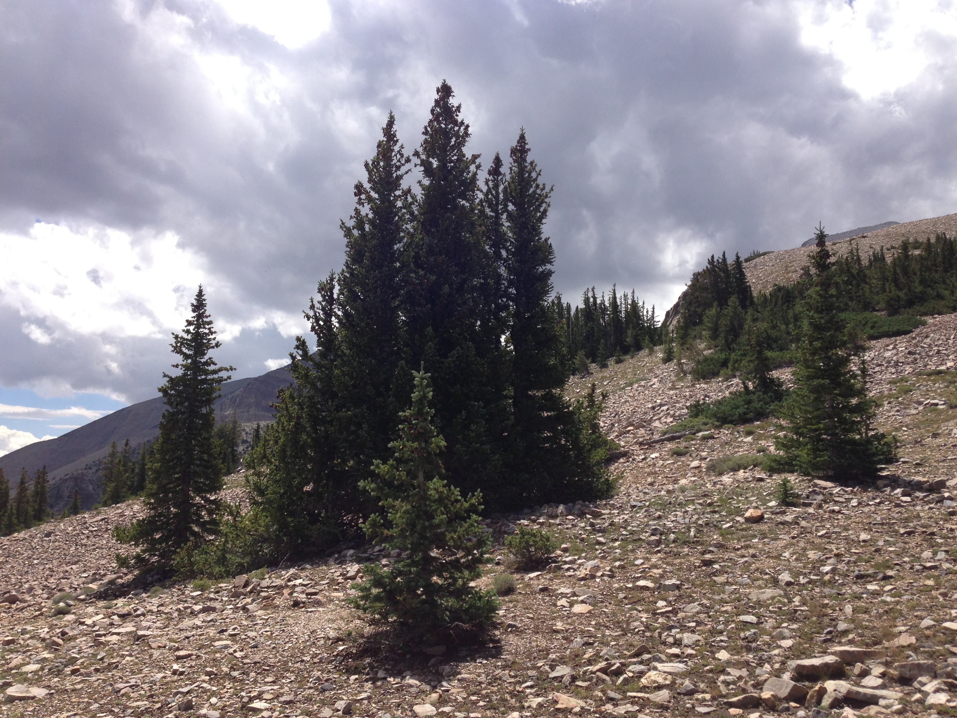 Engelmann Spruce trees near tree line along the Wheeler Peak Summit Trail on July 14th 2013